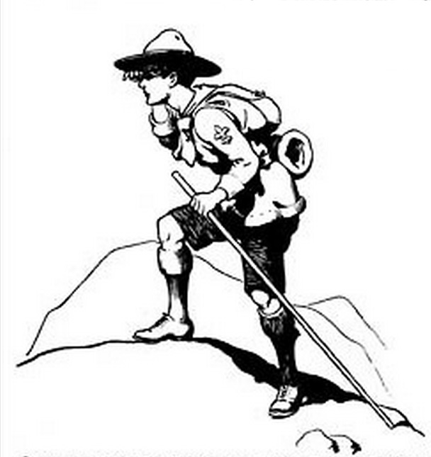 Image from the front cover of Scouting for Boys, Part III drawn by Robert Baden-Powell and published in 1908